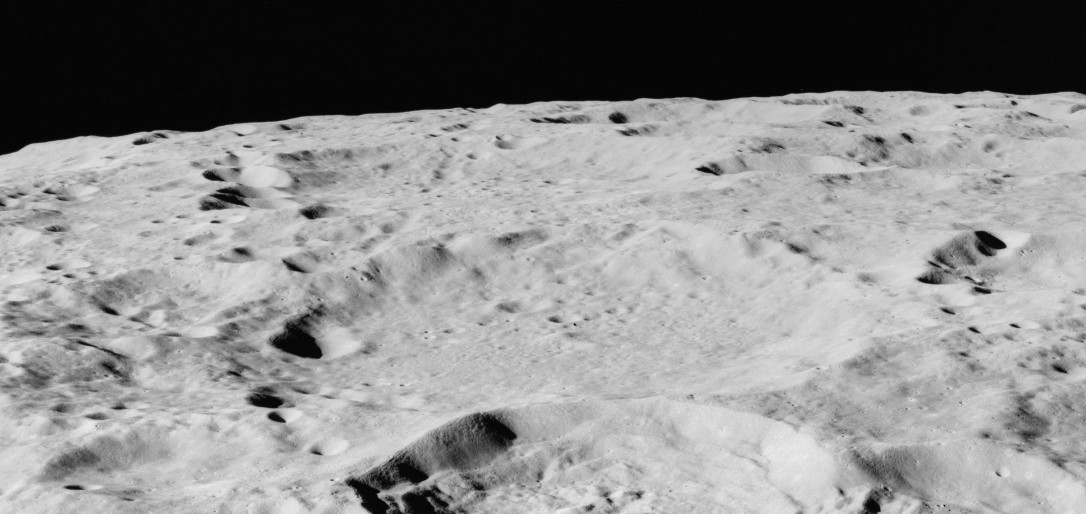 Oblique view Perepelkin, facing north.